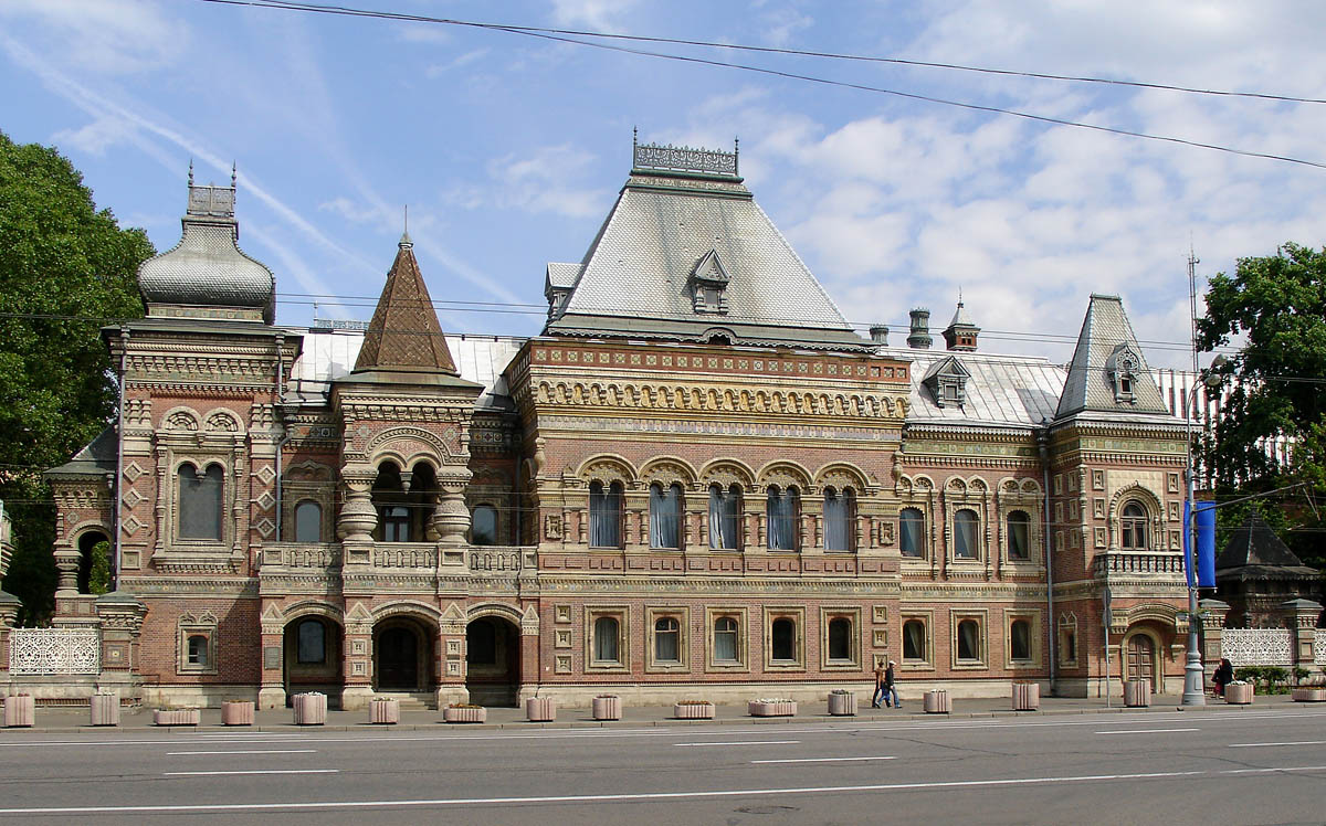 Igumnov's House in Moscow, embassy of France